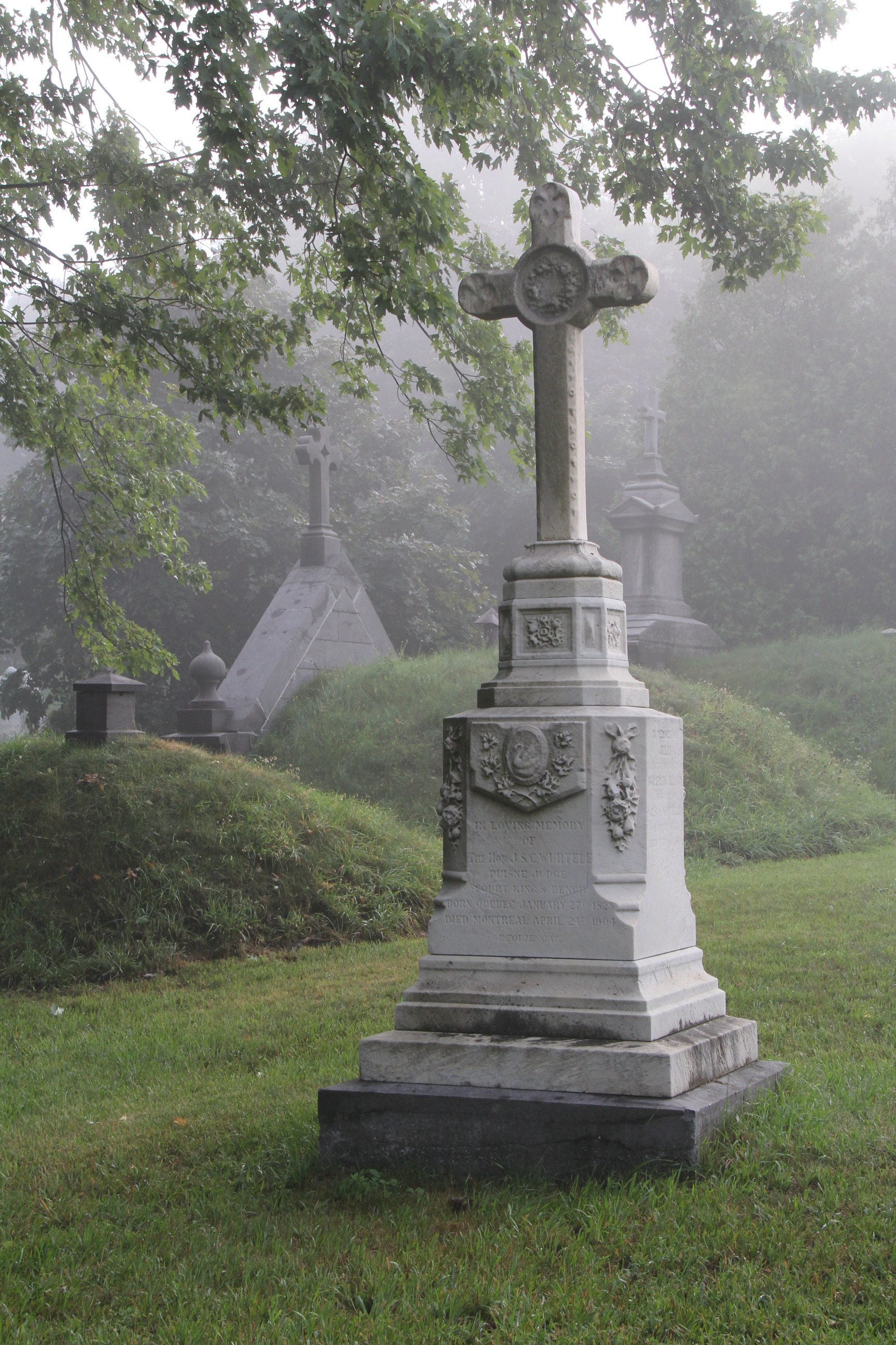 Jonathan Würtele’s (1828-1904) tombstone, Notre-Dame-des-Neiges Cemetery (K19), Montreal.